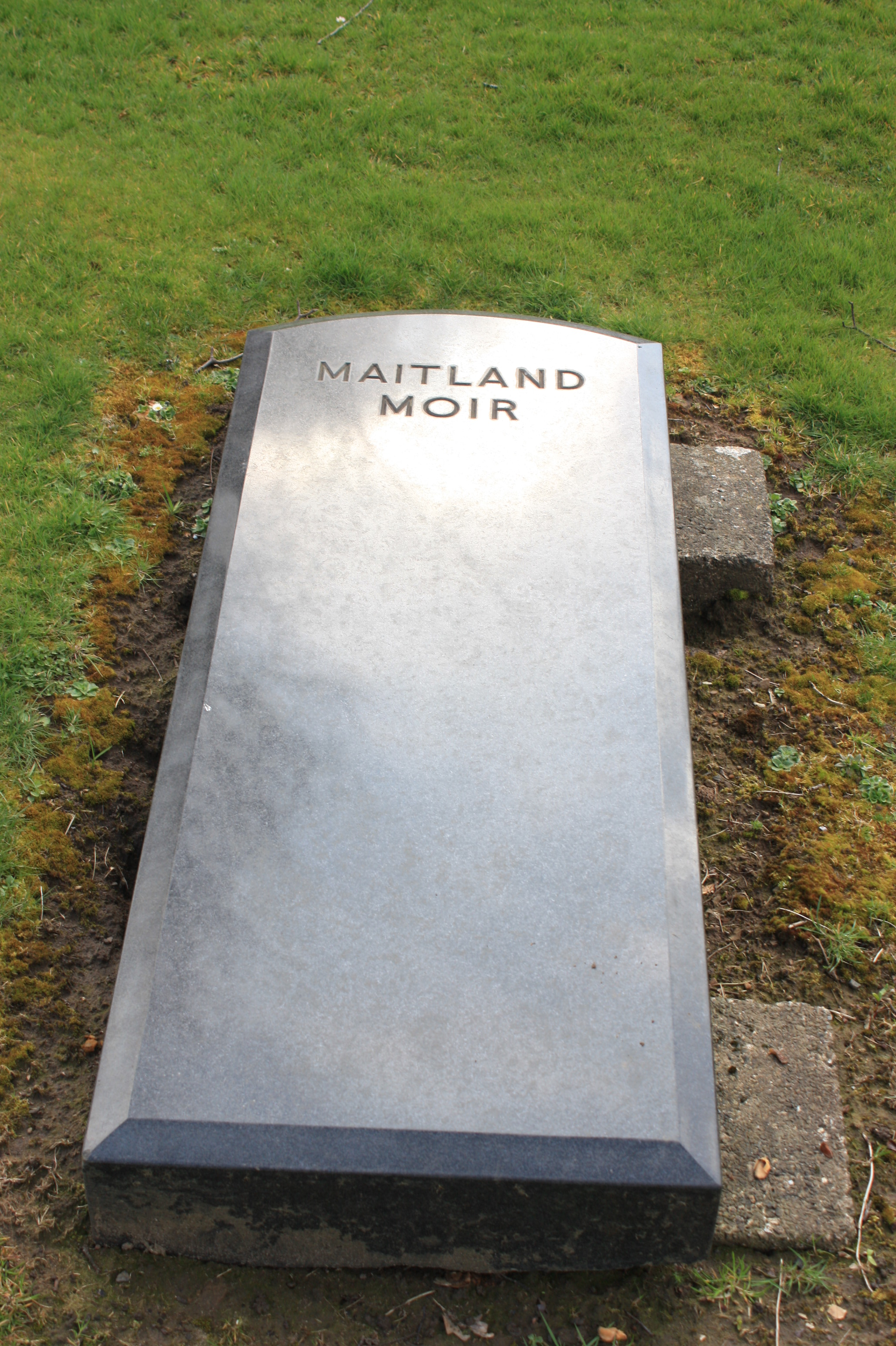 Maitland Moir's grave, Currie Churchyard